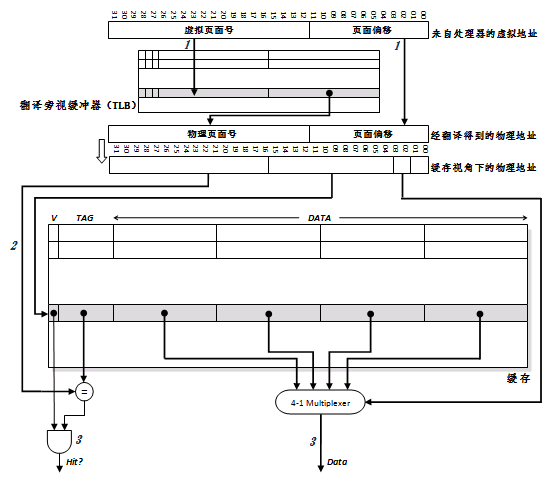 使用物理地址的缓存